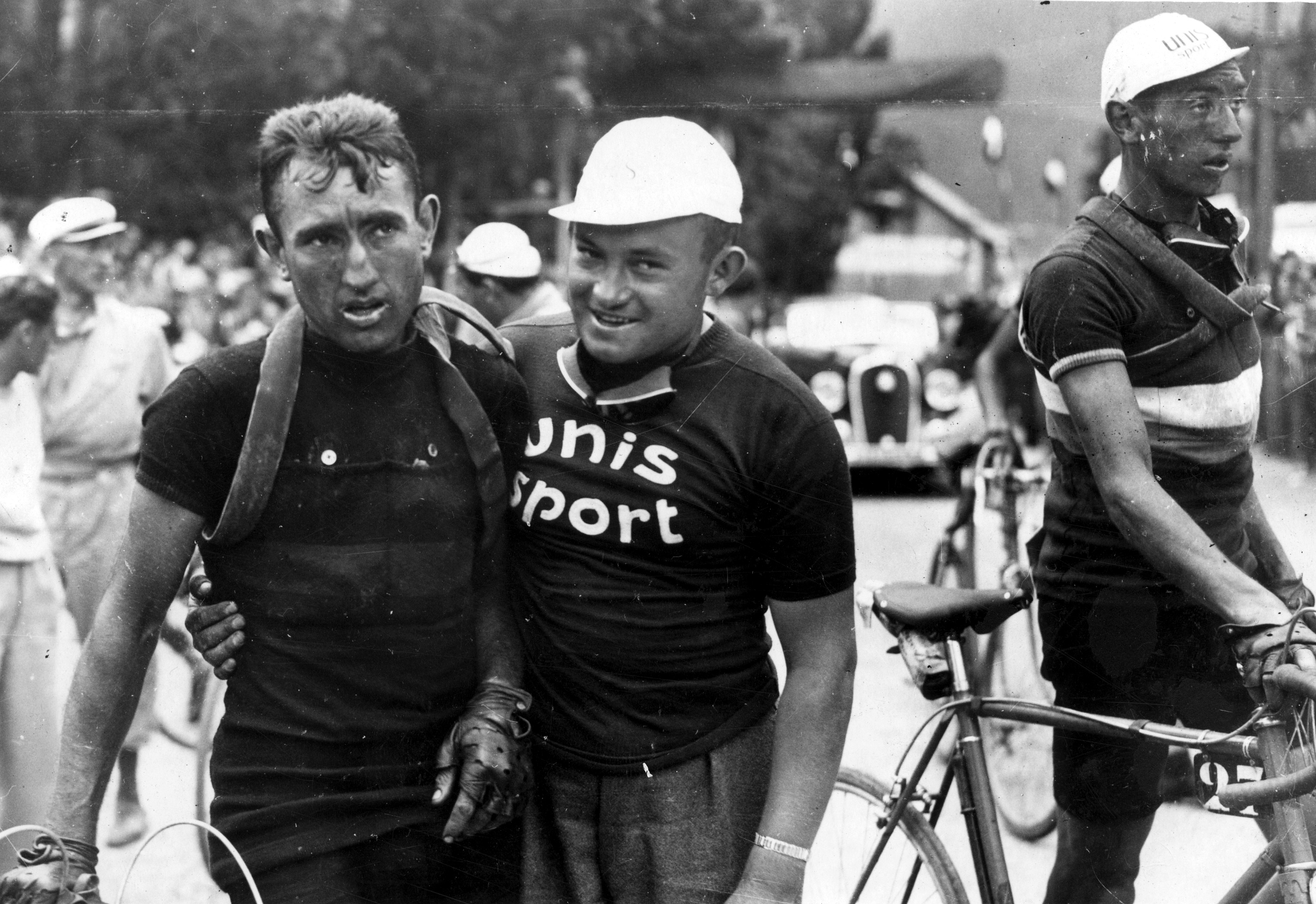 Cycling, 1936 Tour de France, 8th stage Grenoble-Briançon. After today's stage, Belgian Sylvère Maes (left) is the new overall leader; at the far right the second placed Pierre Clémens from Luxembourg. Briançon, 16 July 1936.